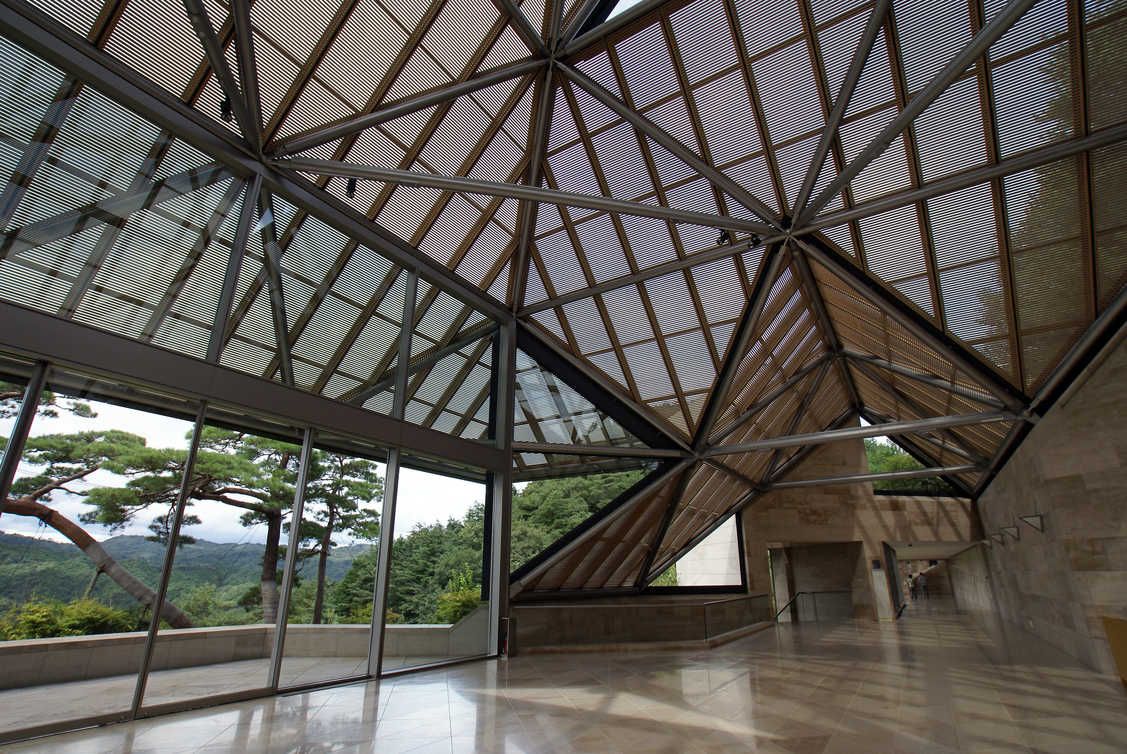 Miho Museum in Koka, Shiga prefecture, Japan